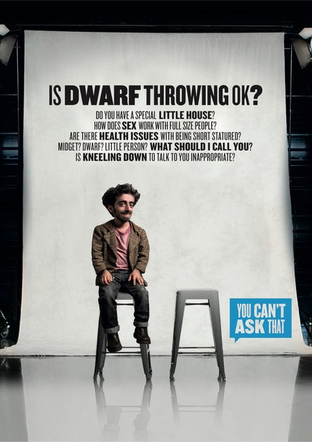 You Can't Ask That